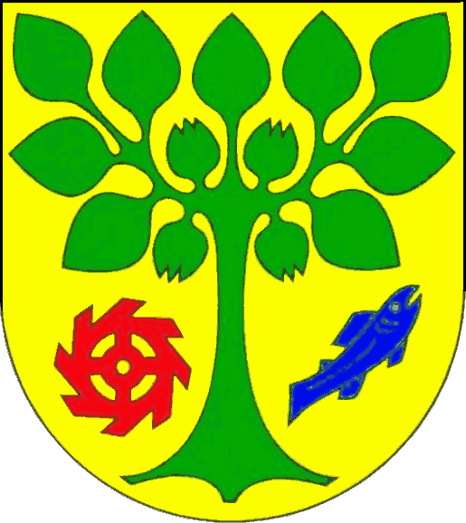 Coat of arms of the municipality Schafflund in Schleswig-Holstein, Germany.